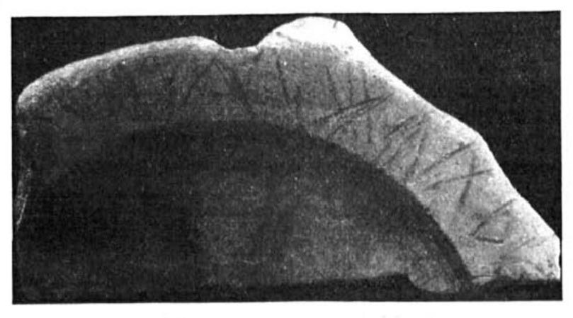 Photograph of a fragment of a vase collected by Mihail Dimitriu at the site of Piroboridava, Poiana, Galaţi, Romania illustrating p. 342 of Dacia journal, vol 3-4, 1933. "Ce tesson présente dans tous les cas un grand intérêt au point de vue de l'influence méridionale sur les artisans de notre station de Poiana, à la fin de l'époque Latène, à laquelle il appartient. Même s'il ne s'agit que d'un jeu d'imitation de quelque potier gète, sa connaissance approximative des lettres grecques ou romaines prouve que les relations entre les Gètes de la Moldavie et le monde gréco-romain d'outre Danube étaient devenues extrêmement étroites à la veille de la directe expansion romaine en Dacie."